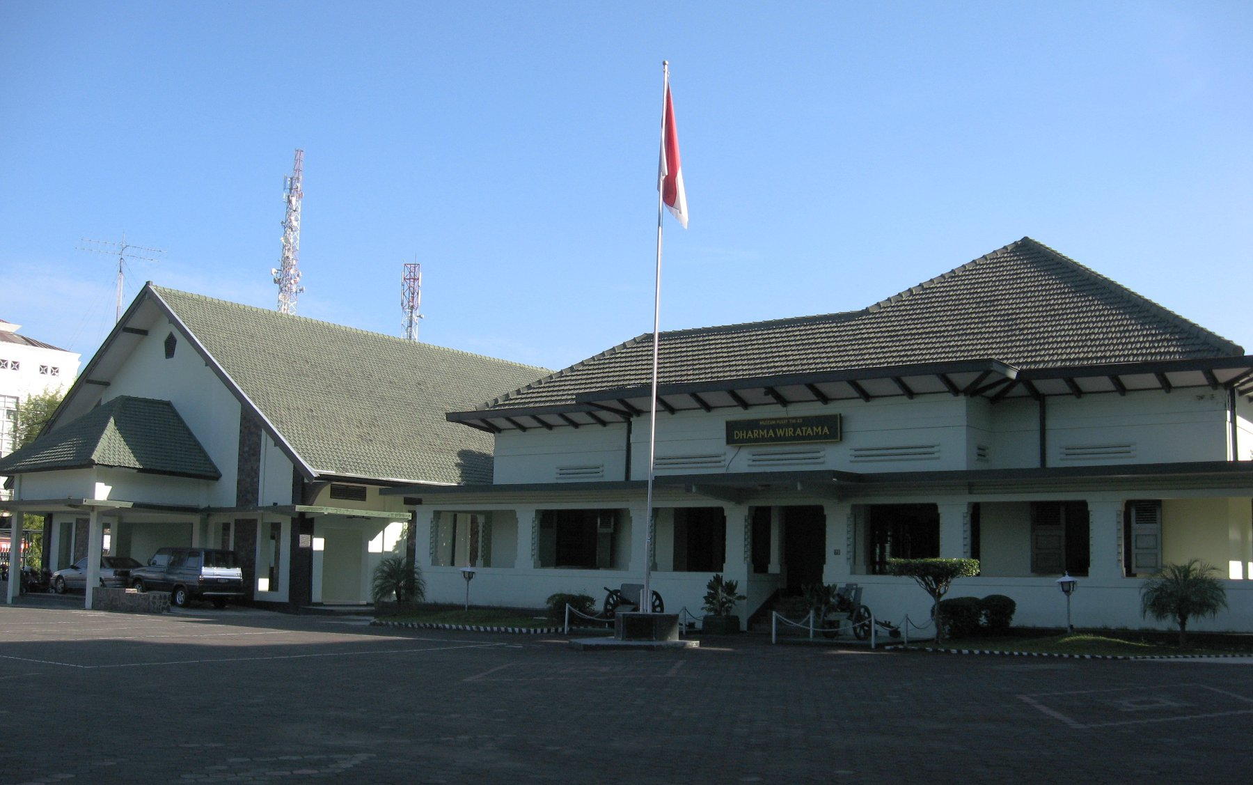 The original headquarters of the Indonesian military, located at the corner of Sudirman and Chik di Tiro Streets in Gondokusuman, Yogyakarta. The headquarters is now a museum.